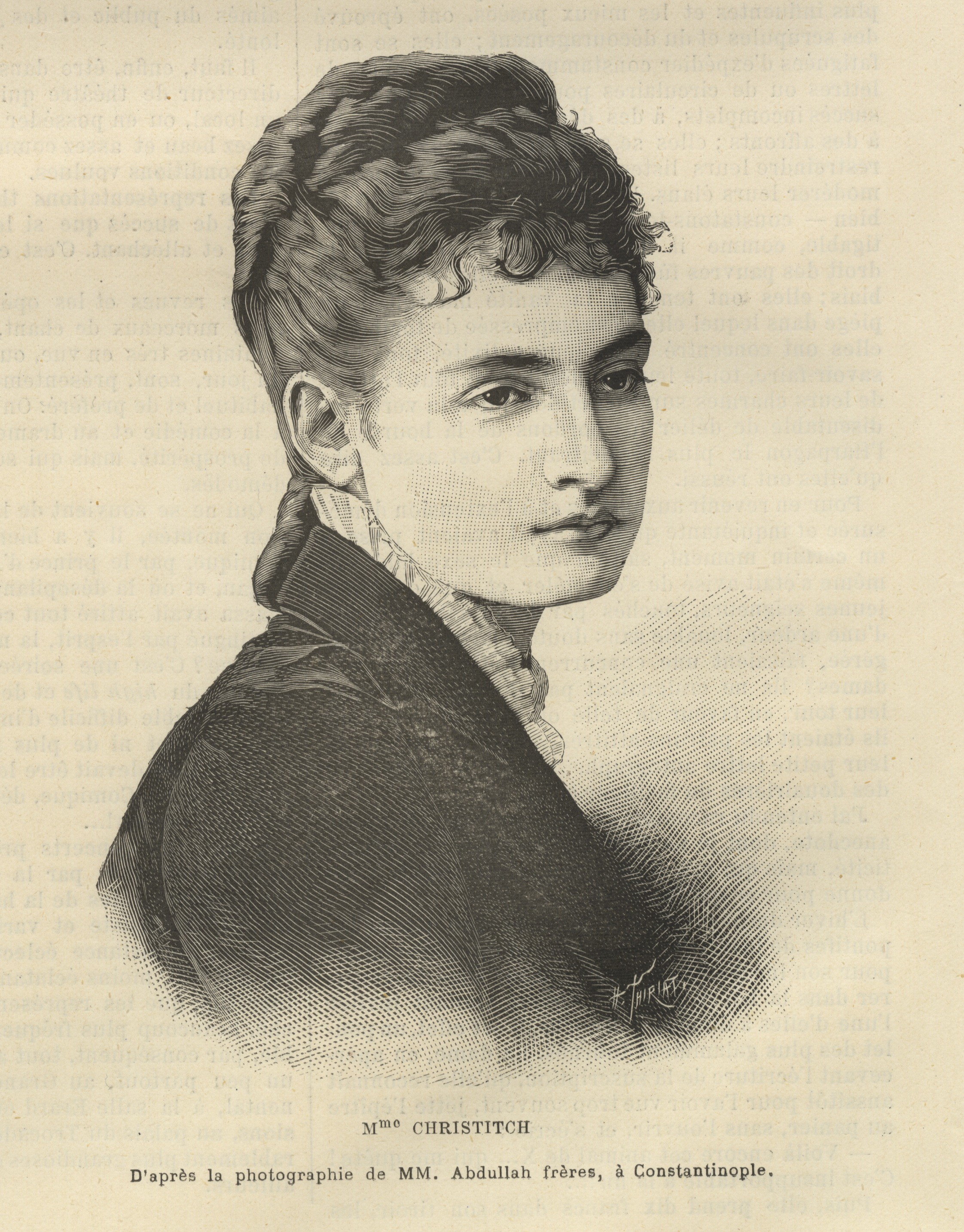 Elizabeth Christitch engraving by Thiriat from a photograph by Abdullah Freres